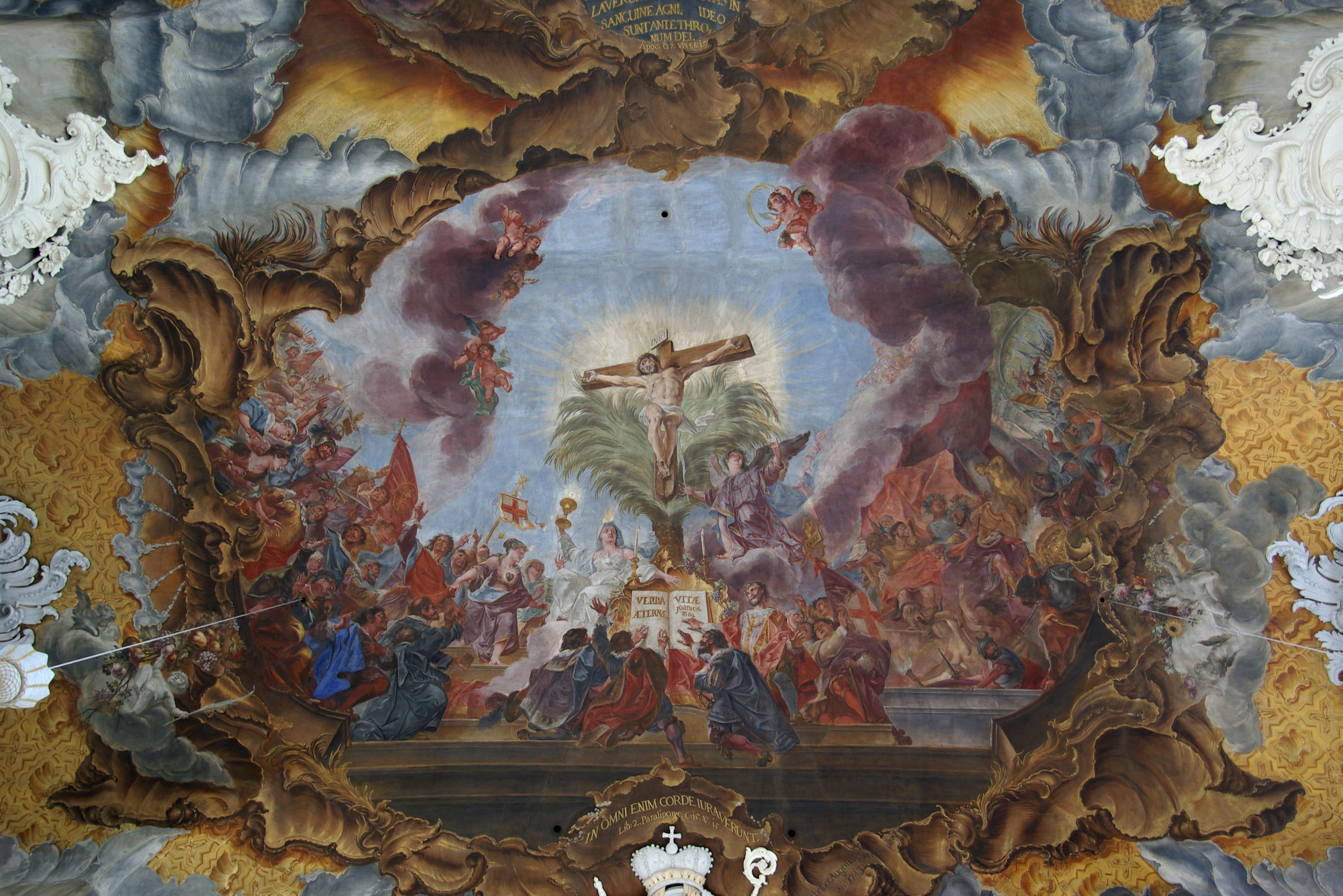 Germany, Trier, Church Sankt Paulin, ceiling fresko, Triumph of the Cross, by Christoph Thomas Scheffler